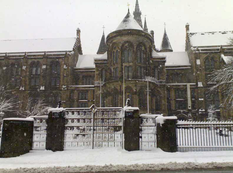 University of Glasgow main building when it is snowing.